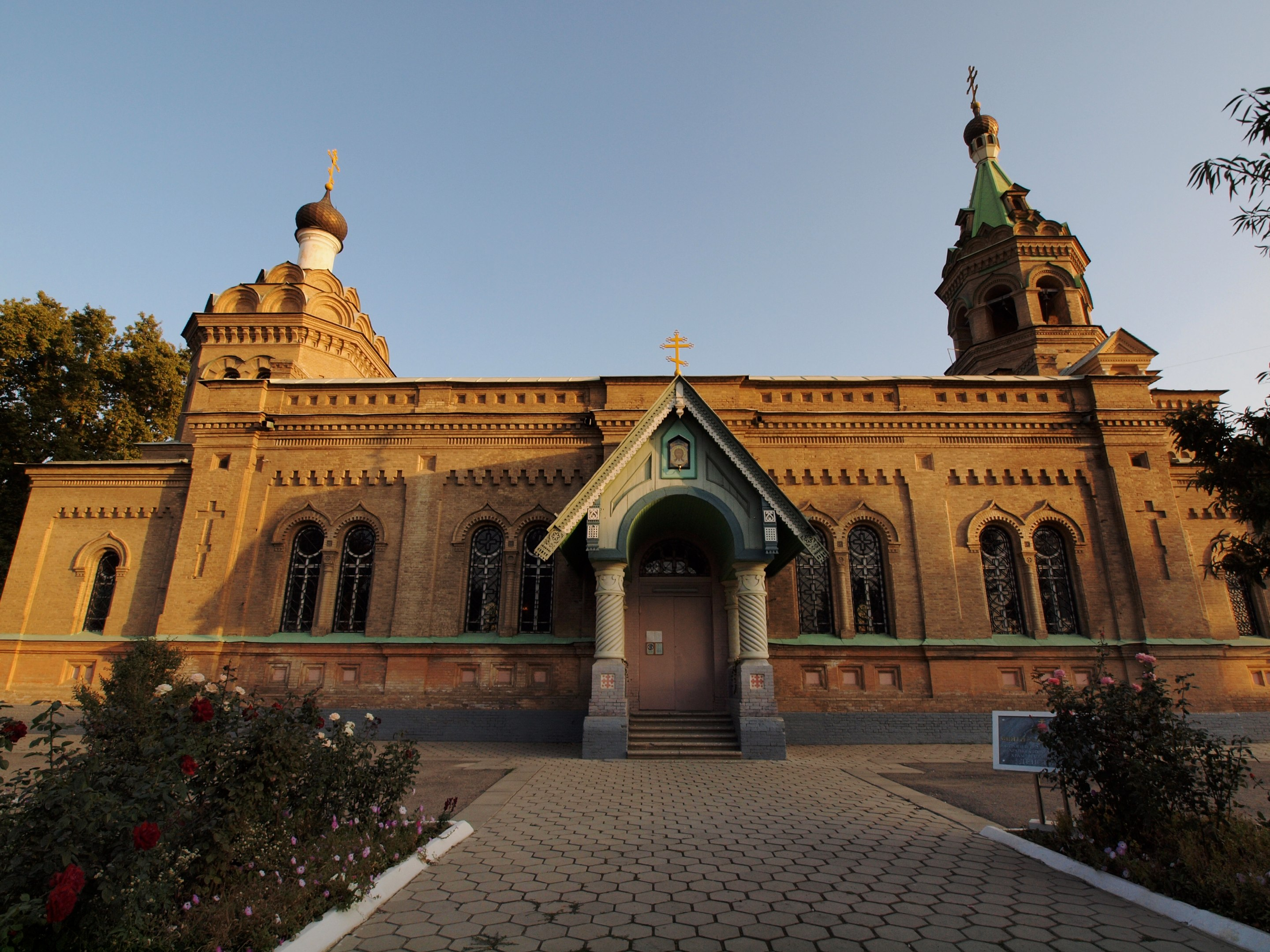 Cathedral of St. Alexis of Moscow to Samarkand